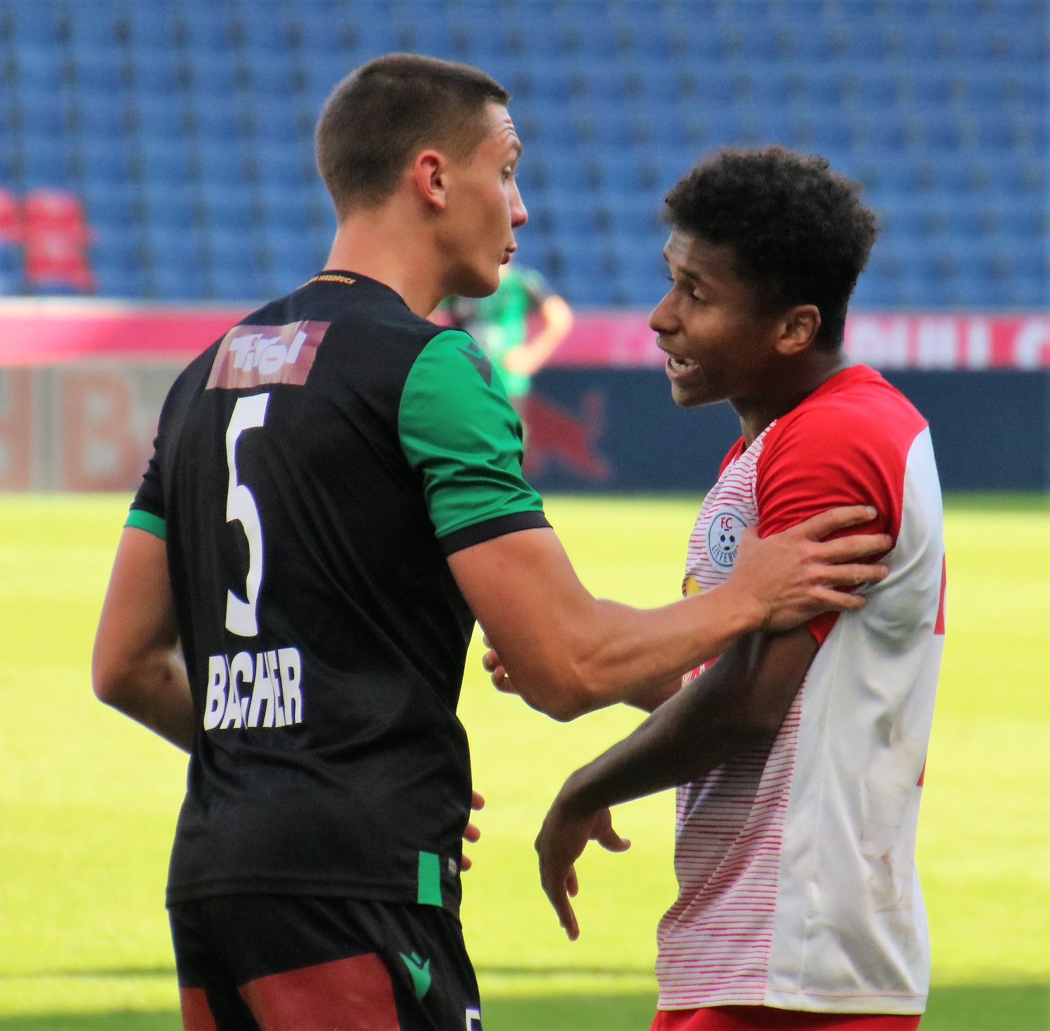 league match 2nd league Austria 8th round